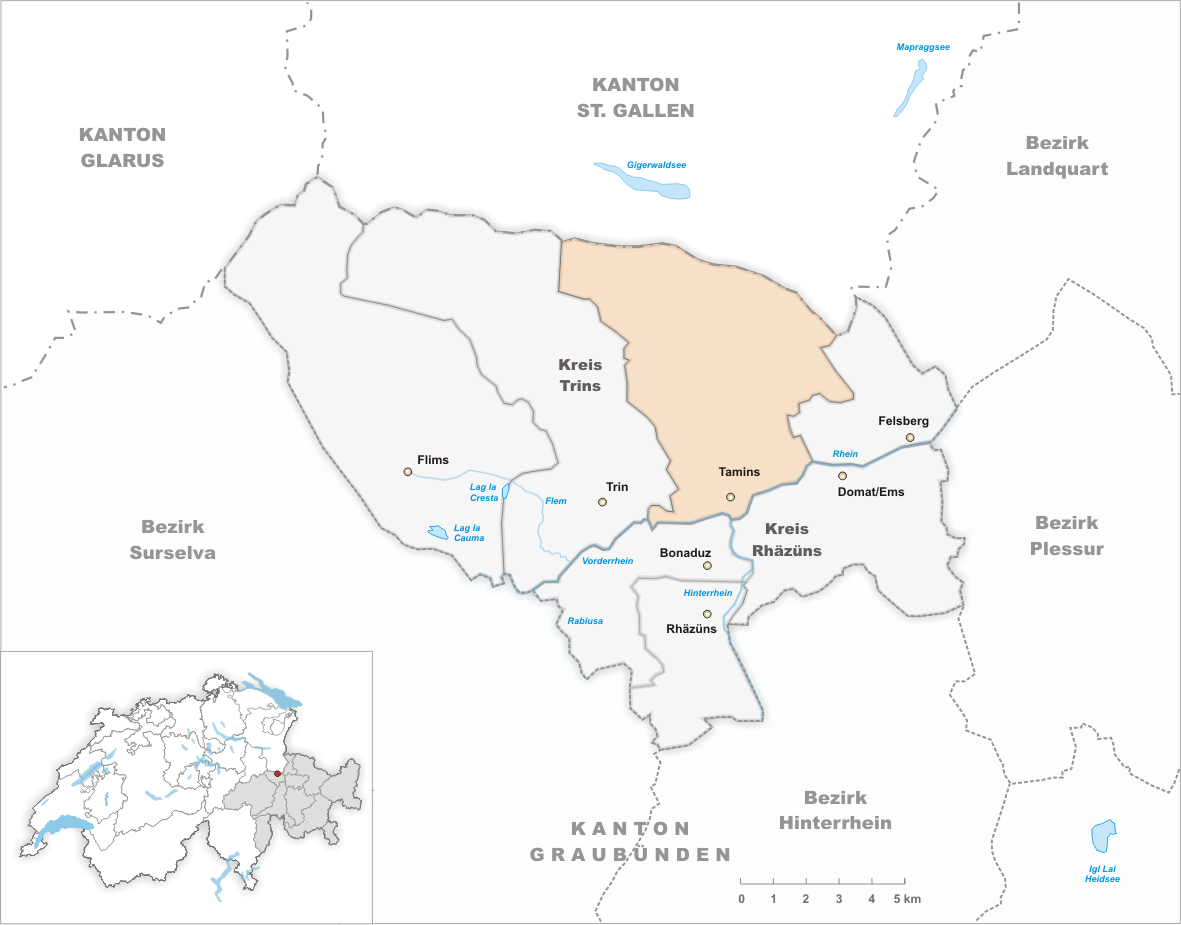 Municipality Tamins